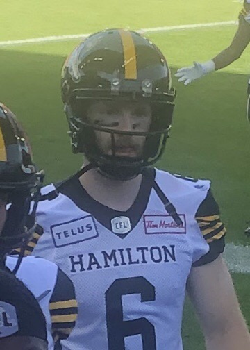 Brian Jones, receiver for the Hamilton Tiger-Cats.